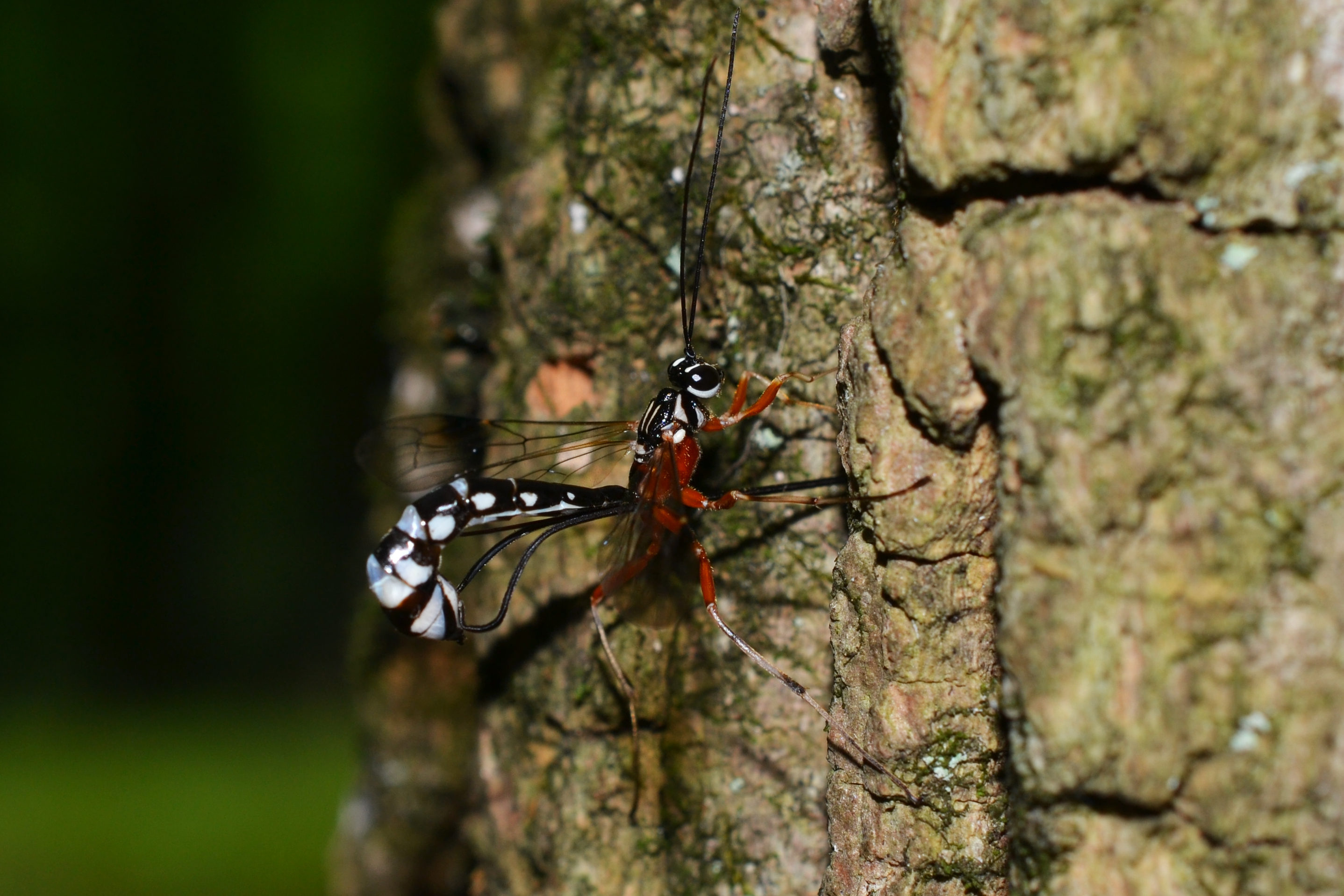 Rentschler Forest Metropark - Line Hill Mound, Fairfield, Ohio (Apparently a rare [or at least rarely photographed] species)